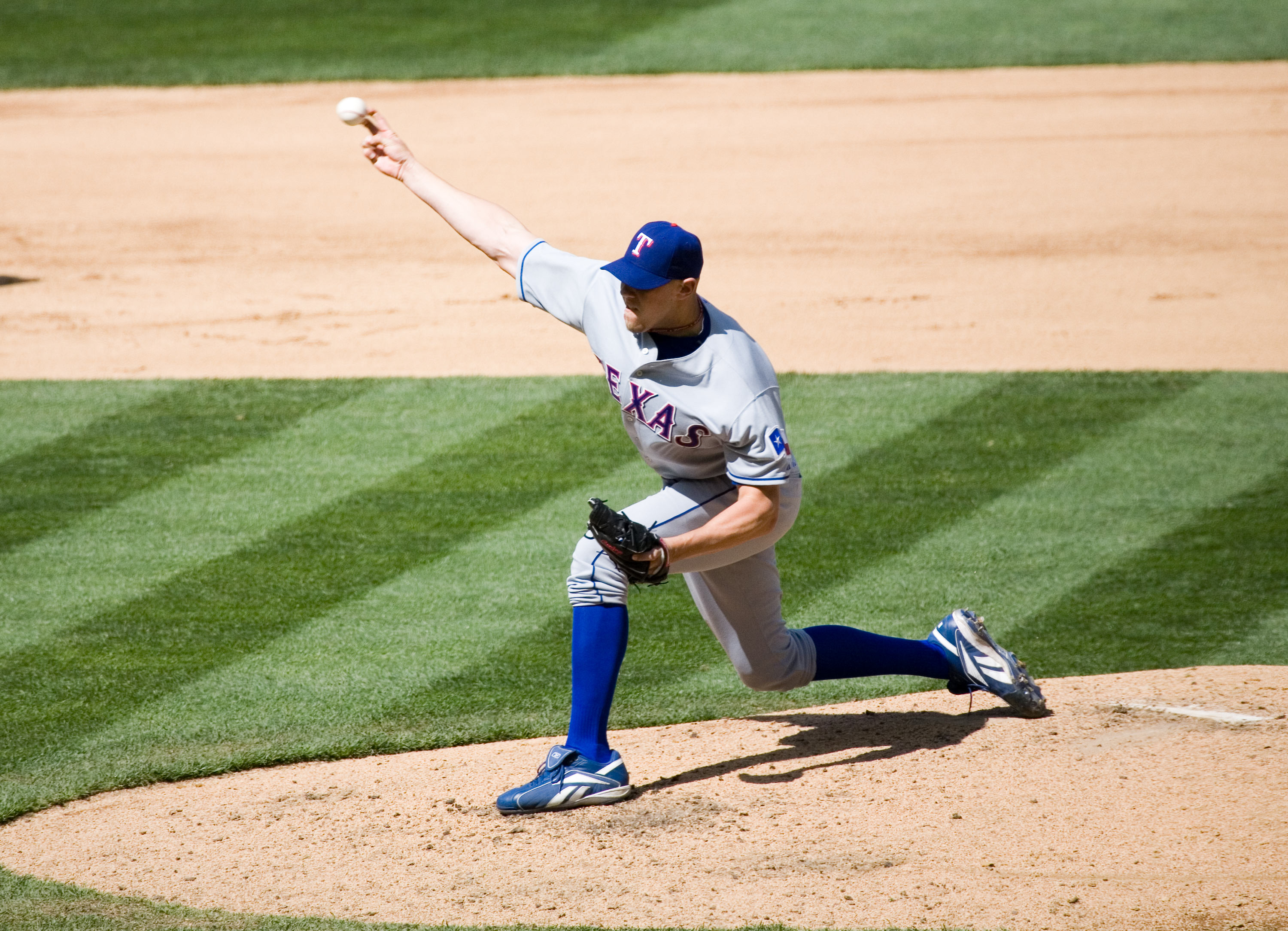 Kameron Loe pitching.